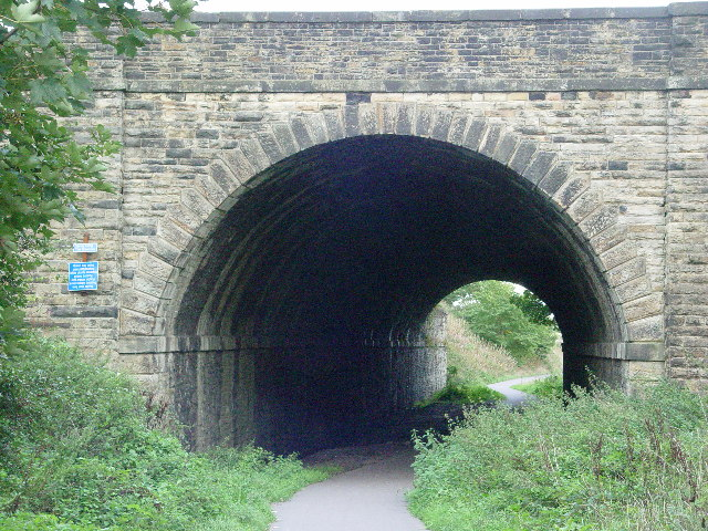 Old Railway Tunnel. The track bed is now used as a walking/cycle way called the "Spen Valley Greenway" which runs from Oakenshaw (Bradford) through Cleckheaton, Liversedge, Heckmondwike and Ravensthorpe.